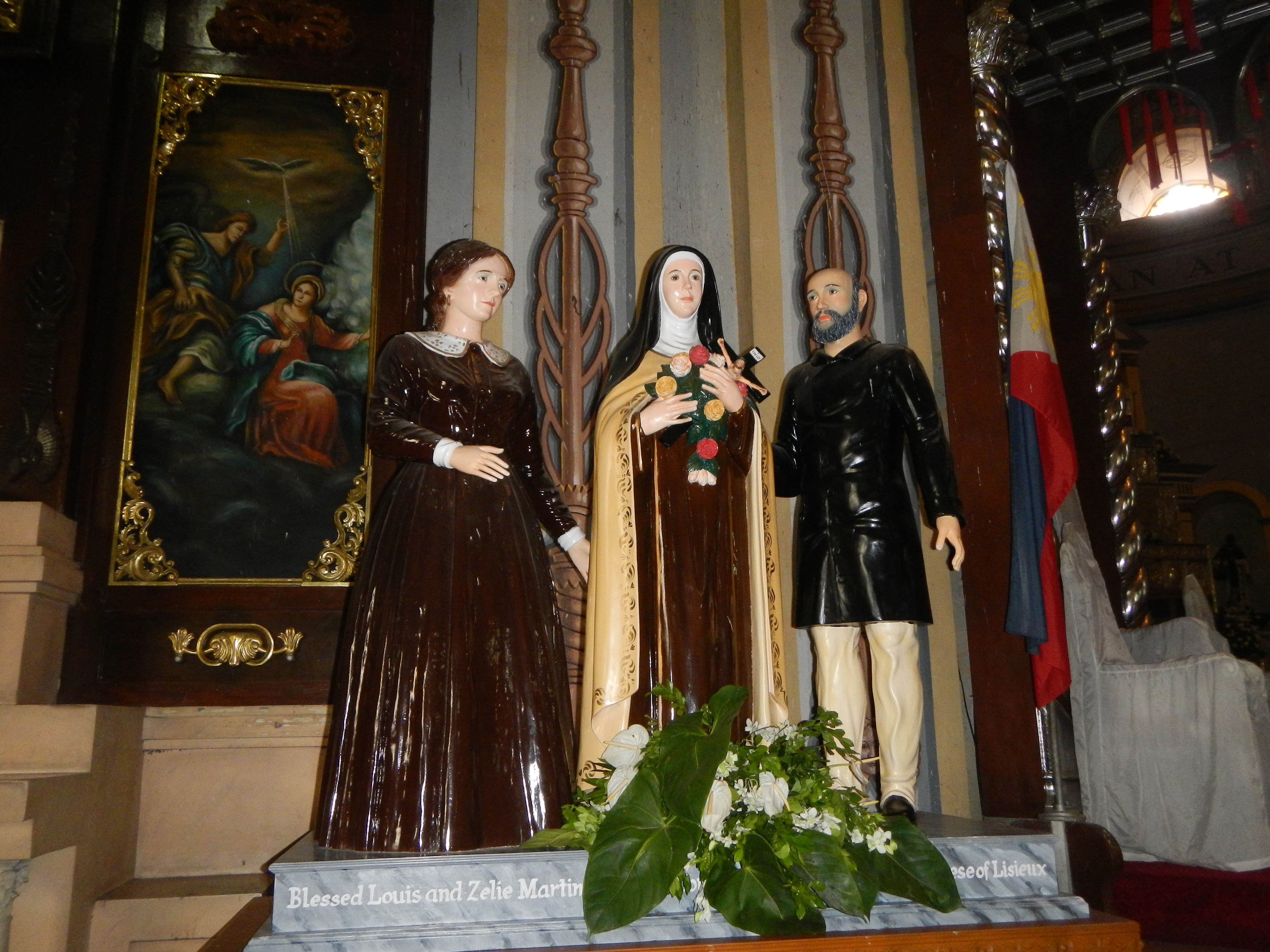 Metropolitan Cathedral of Saint Sebastian of Lipa City - San Sebastian Cathedral CM Recto Ave., Poblacion, Lipa City, Batangas, Philippines[1]Metro Lipa Cathedral Its first grand concept was completed in 1865 but, after the devastation of WWII, it underwent massive reconstruction.circular dome, massive walls and balconies,Coordinates: 13°56'27"N 121°9'48"E[2]Administered by the Augustinians beginning April 30, 1605 (and until the end of the 19th century) under the name “Convent of San Sebastian in Comintang” The church was totally completed from 1865 to 1894 during the administration of Fray Benito Baras to whom Lipeños attribute their religiosity.[3]Metropolitan Archbishop: Archbishop Ramon Cabrera Argüelles Lipa City, Batangas[4] Website The City of Lipa (Filipino: Lungsod ng Lipa) /Li-pâ/ is a first class component city in the province of Batangas in the Philippines.